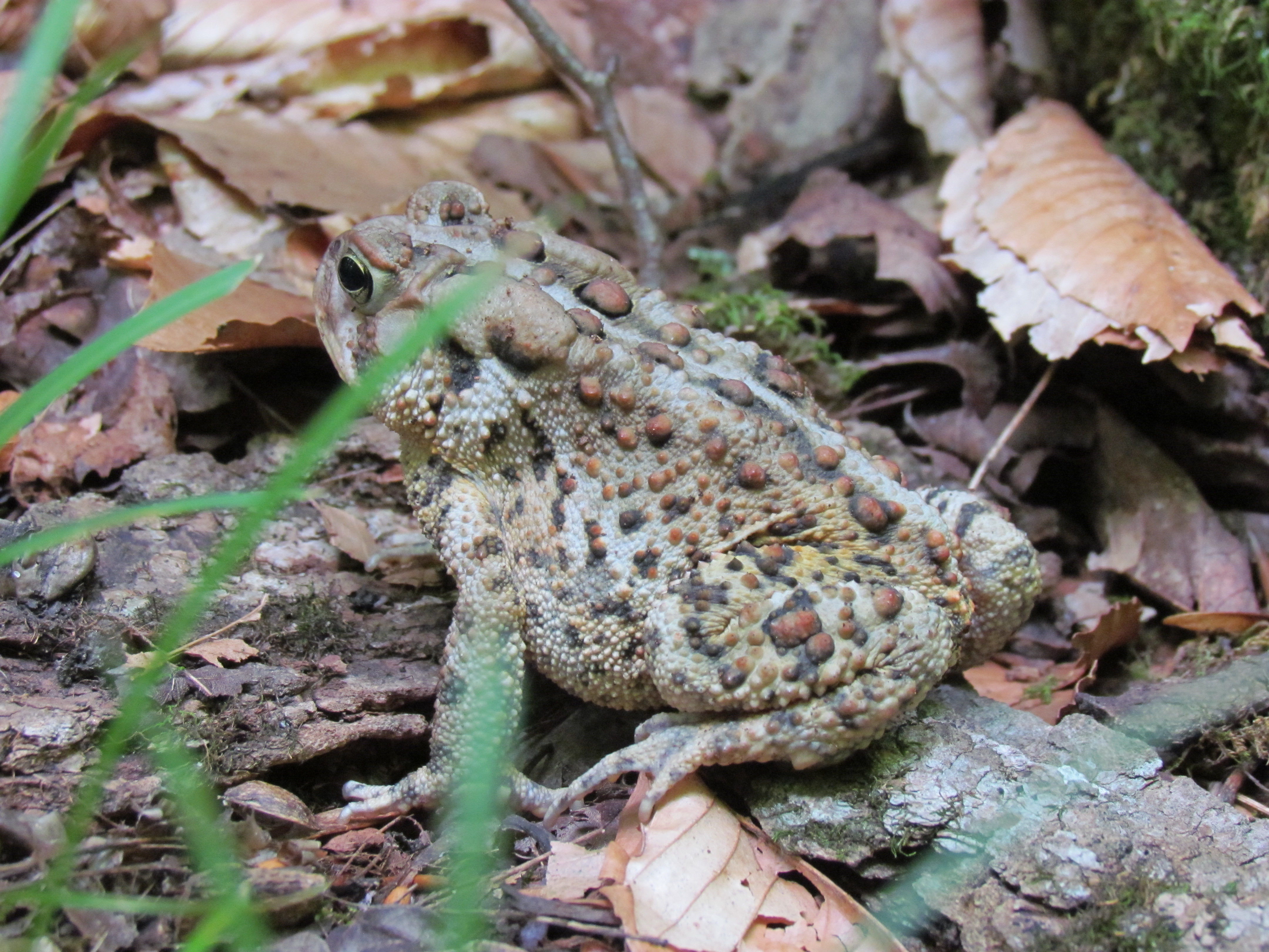 American toad (Anaxyrus americanus) in the Boisé-des-Muir ecological reserve, Québec, Canada